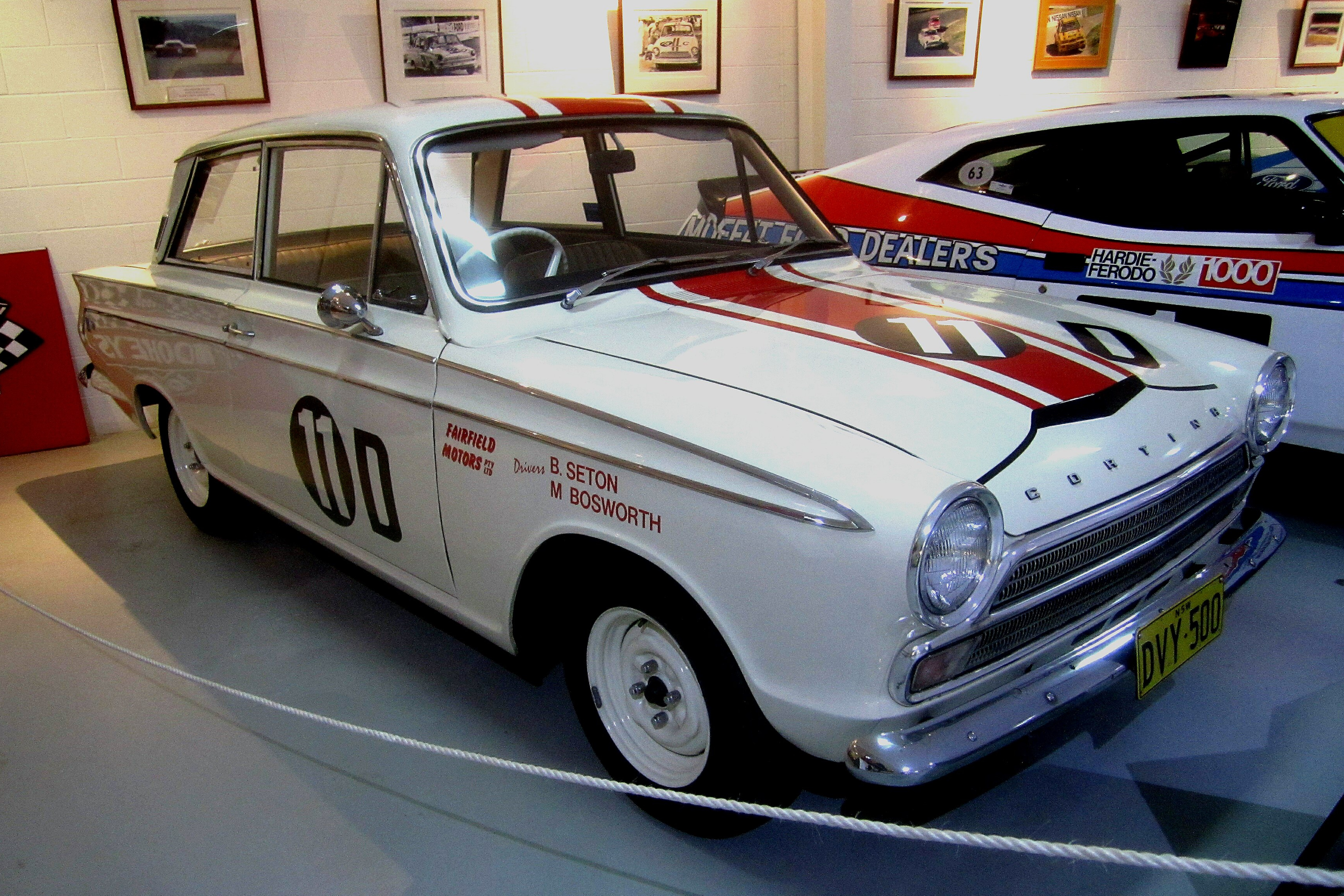 The UK designed Cortina was designed to be cheap to build an economical to run. It also proved to be a great little car in the racing world, doing very well in varied motorsport events. With the Mk I, there were 2 main variations, the first, the 1962-64 Consul Cortina, known as the 'pre airflow' had elliptical front indicators outside the grille. The main facelift in Oct 1964, the 'airflow' model, the Consul dropped, now just Cortina, the grille now incorporated squarer parkers. It also got the new flow through ventilation In England and NZ, the Mk I was available in 2 or 4 door saloon and 5 door estate, models were the 46hp 1200cc Standard or Deluxe or 60hp 1500cc Super and 78hp 1500 GT. Lotus developed a Mk I for racing duties, all 2 door cars and white with a green flash, they got the 105hp twin cam 1500. Also built in Australia, models there were; 220 2 door (1200cc), 240 2 door and 440 4 door (both with 60hp 1500) also the 4 door GT (78hp 1500) and limited edition race ready 98hp 2 door GT500. Ford commissioned Harry Firth to build 110 cars to make sure Ford won the 1965 Armstrong 500 (Hence the name GT500) (Bo Seton and Mitch Bosworth did win the race) They were based on the Cortina GT, but 2 door with alloy brake scoops, auxilliary fuel tank with twin fillers, Lotus close ratio gearbox, a modified engine, (new cam, lightened flywheel and modified heads) ported and polished head and lowered suspension.